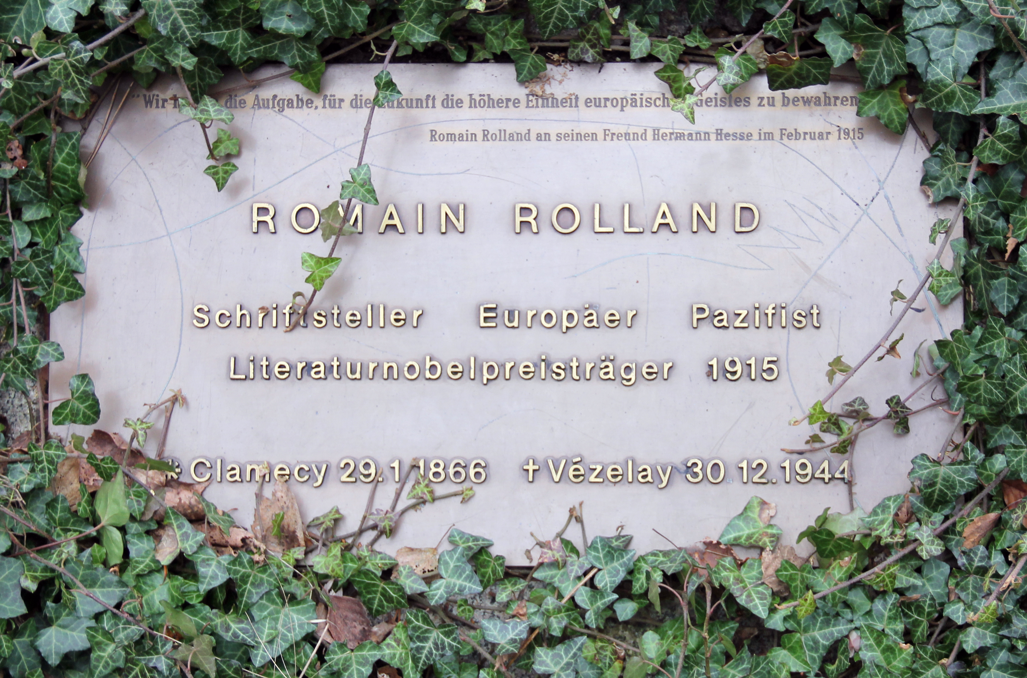 Memorial plaque, Romain Rolland, Place Molière 4, Berlin-Wittenau, Deutschland